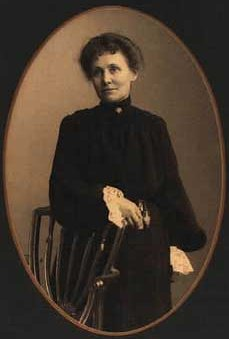 Louise Nørlund (1854-1919), Danish women's rights activist. Royal Library, Copenhagen.